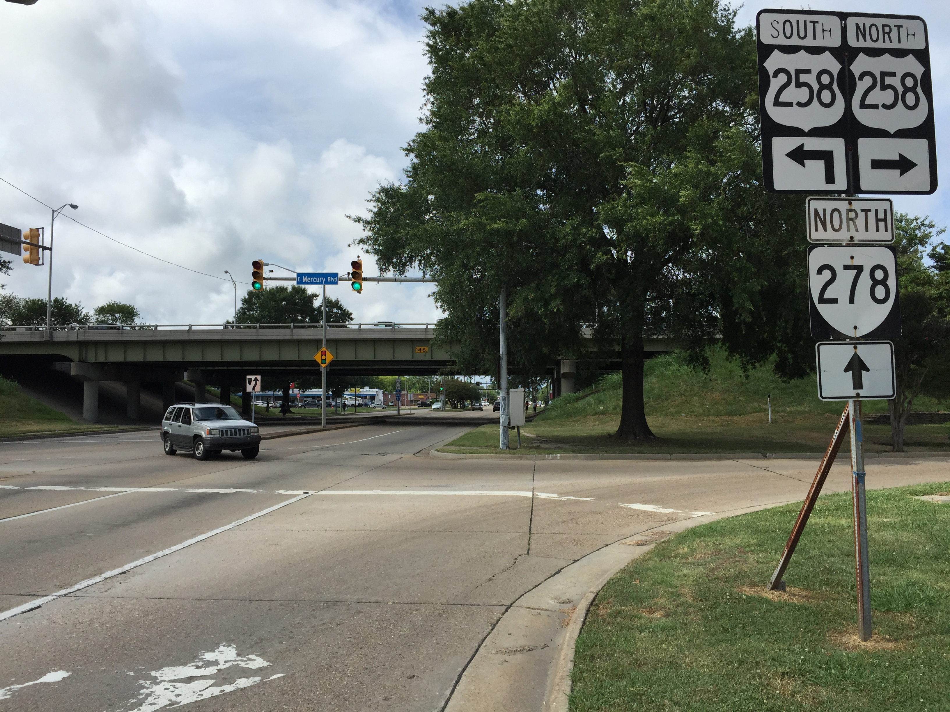 View north along Virginia State Route 278 (King Street) at U.S. Route 258 (Mercury Boulevard) in Hampton, Virginia